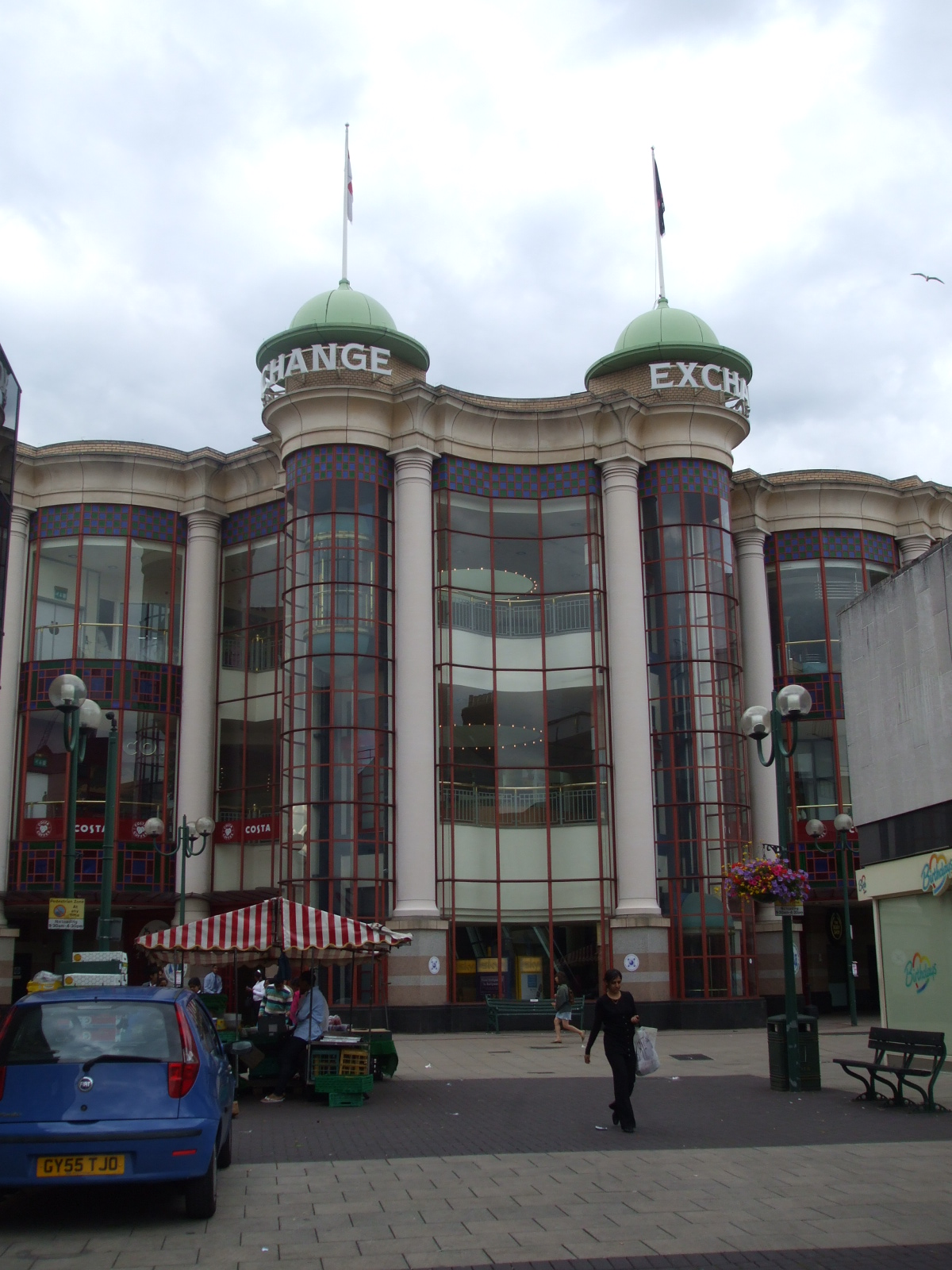 Exchange Shopping Centre, main entrance on Ilford High Road